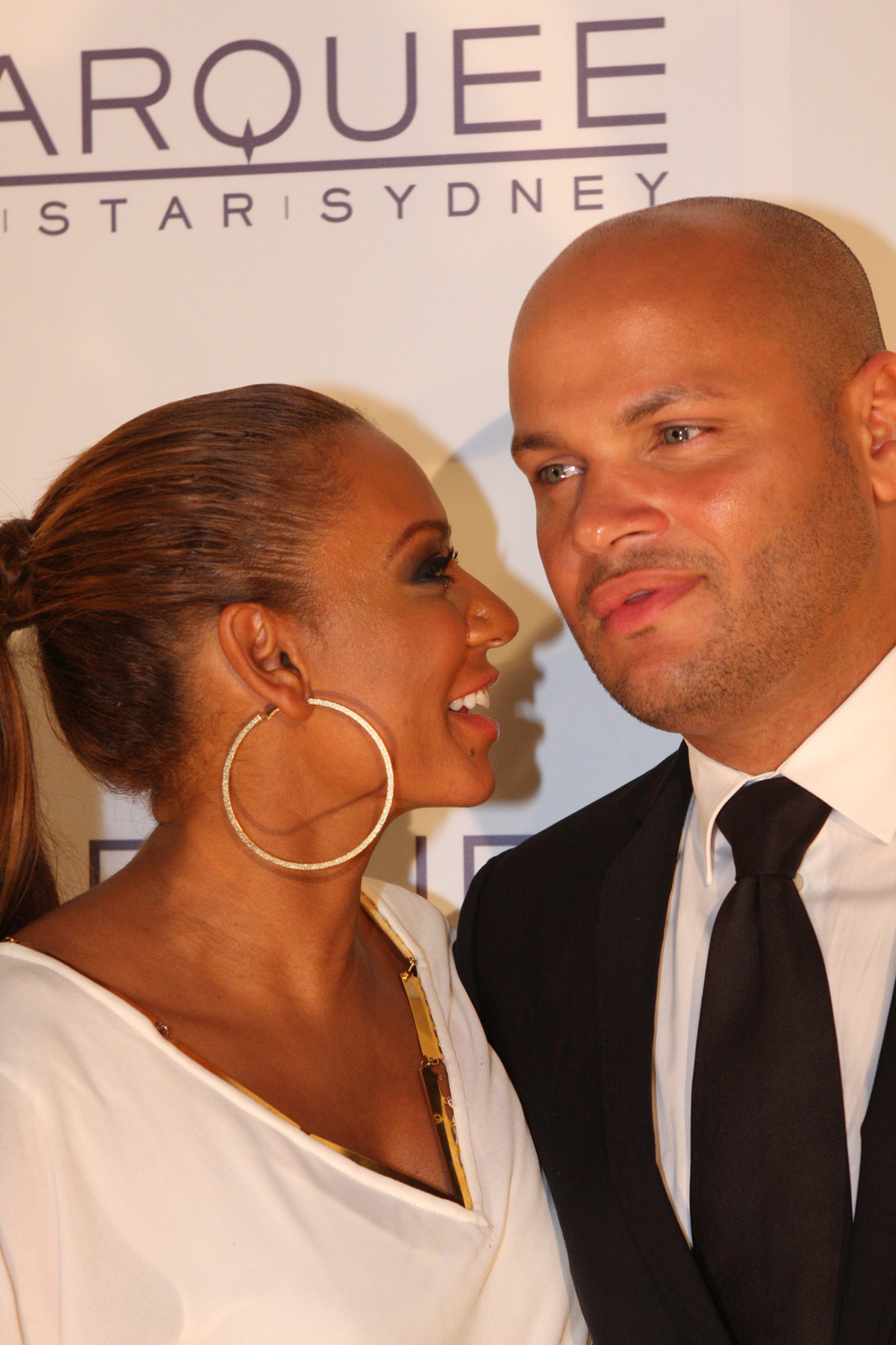 Paris Hilton, Friends, Hollywood Celebrities Open Marquee The Star, Sydney, Australia